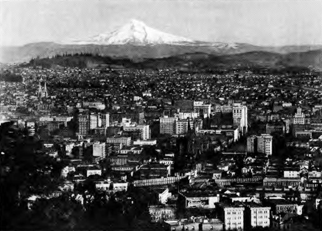 Portland, Oregon in 1910